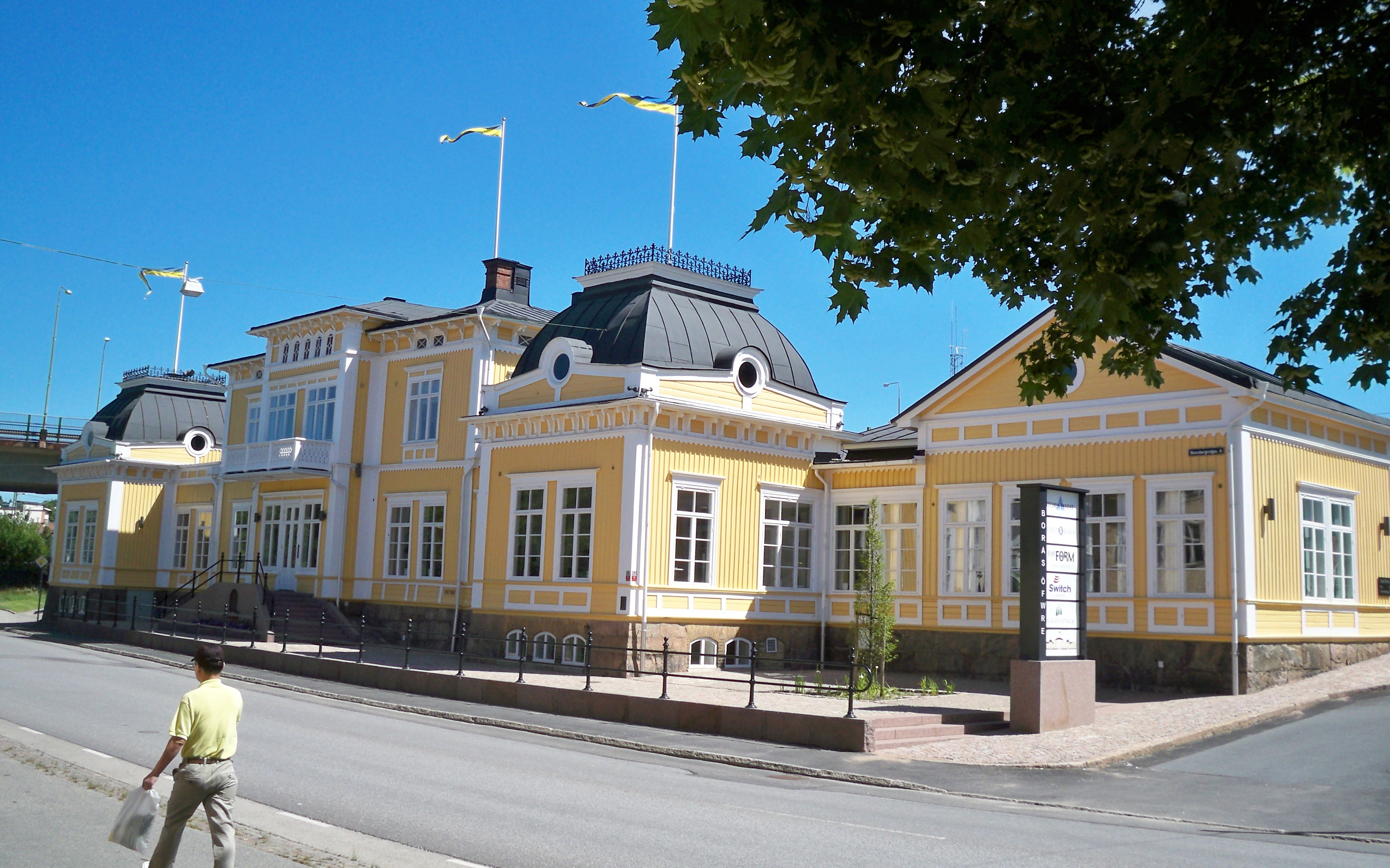 Borås first railway station, built in 1863. From 1894 onto 1968, when it was closed, it was called Borås Upper Station, in relation to Borås Lower Station (the present central station of Borås).